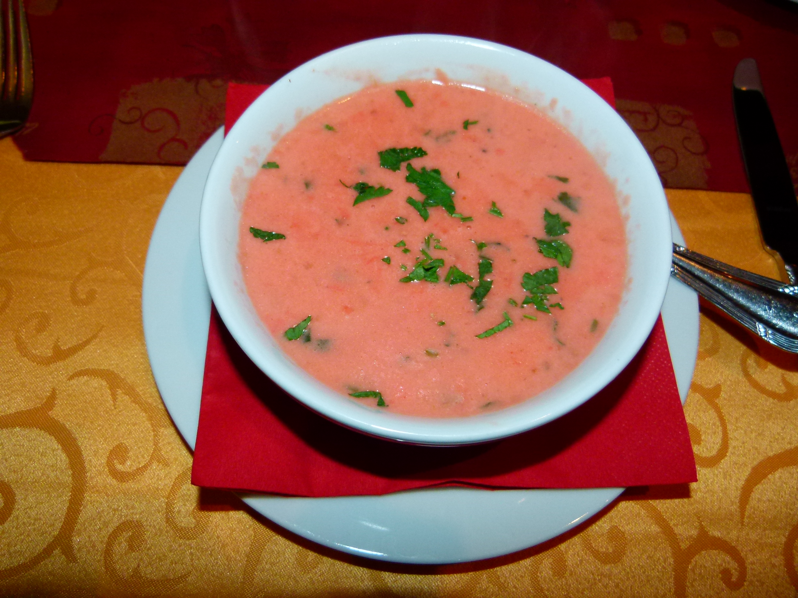 Rote Linsensuppe nach nordindischer Art, Indisches Restaurant Yogi, Dresden-Laubegast